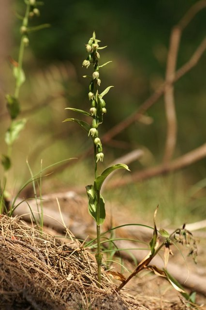 Dune Helleborine (Epipactis dunensis), Formby A rare orchid which, depending on the current taxonomic view, is endemic to these dunes.